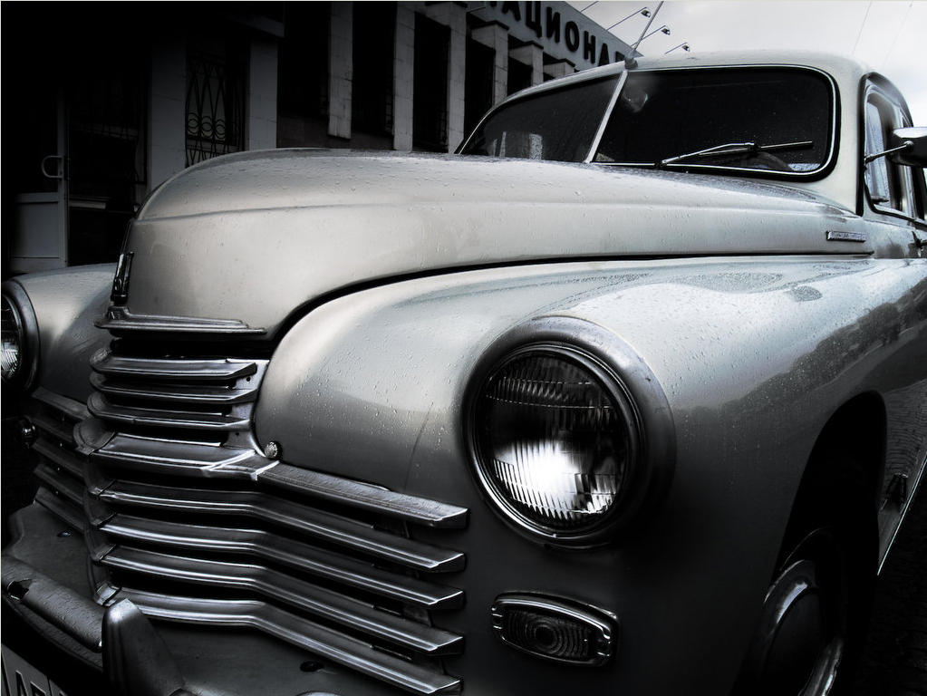 1950's Soviet car "Pobeda"